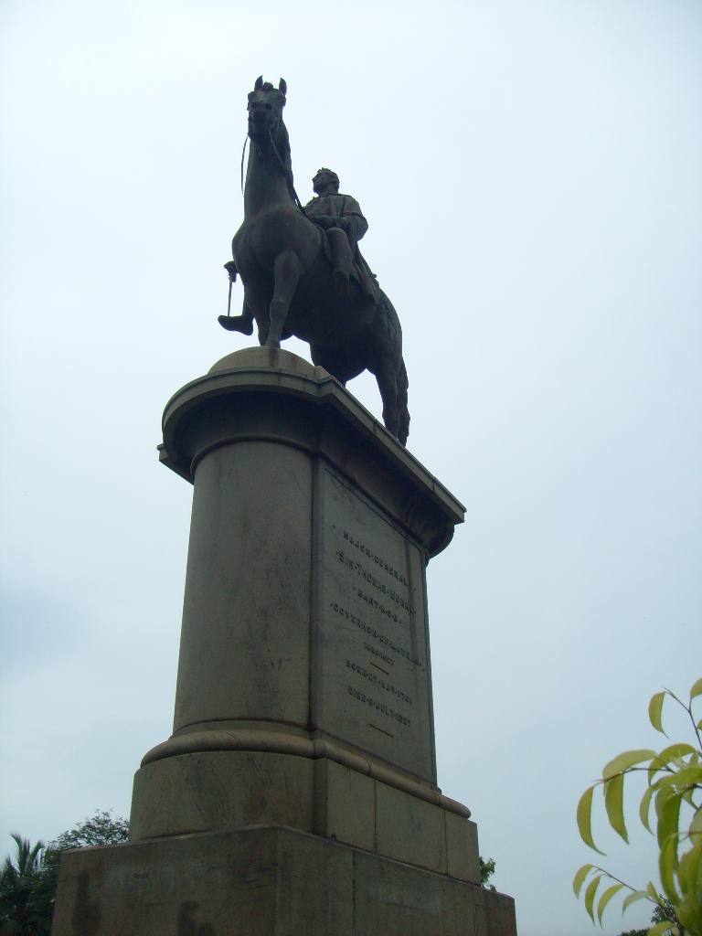 Equestrian statue of Sir Thomas Munro in The Island, Chennai. Front view.